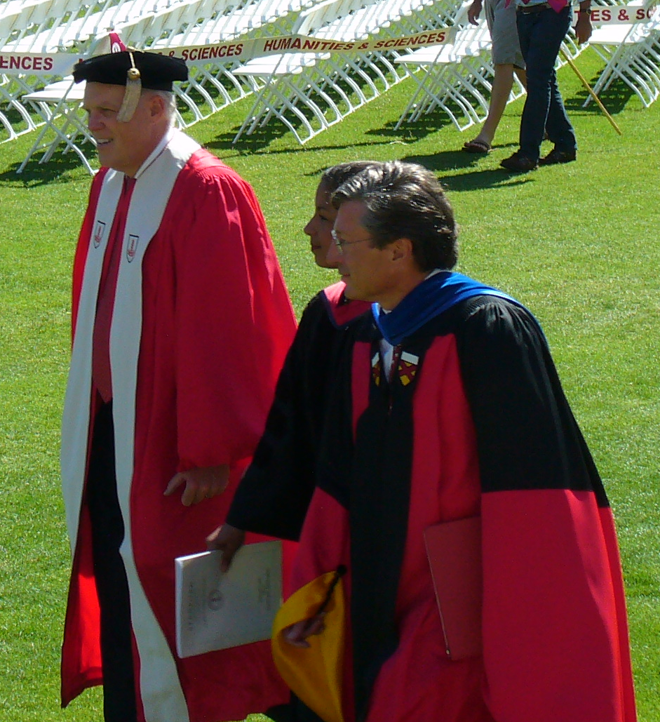 Professor John Hennessy (left), Ambassador Susan Rice (center), Professor John Etchemendy (right)